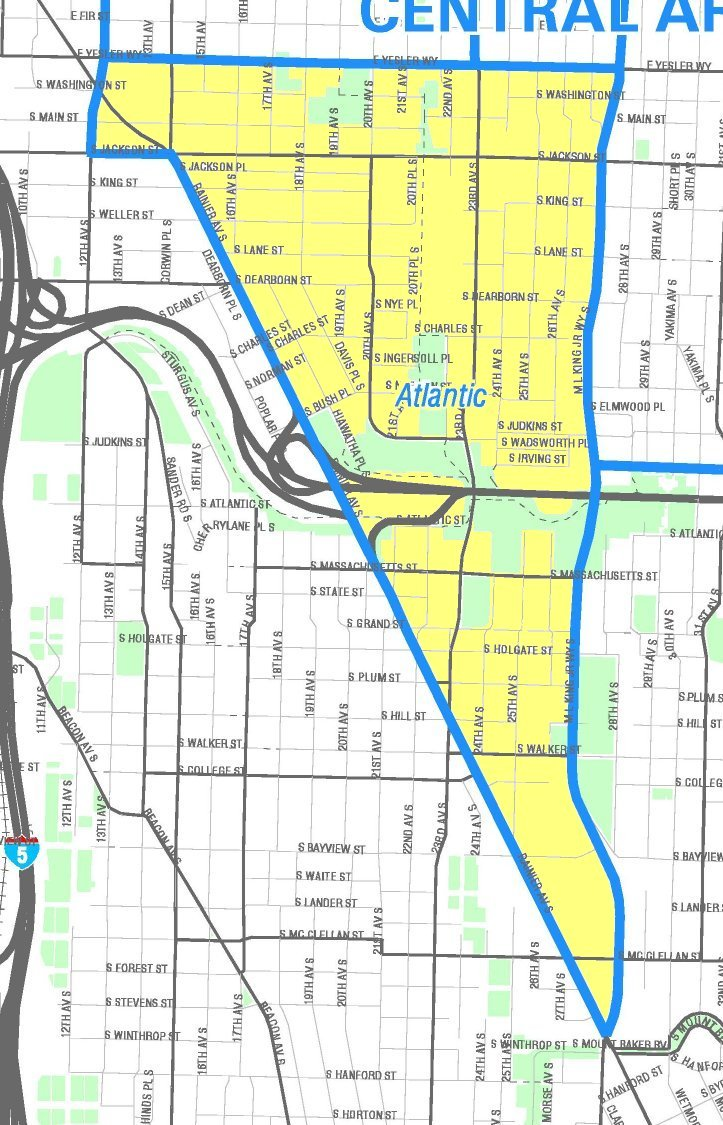 Map of Atlantic neighborhood, Seattle. Like the other maps from the Seattle City Clerk's Neighborhood Map Atlas, this is not an official map; in particular, borders are not official. Disclaimer: The Seattle Neighborhood Atlas, which the Seattle Clerk's Office has placed in the public domain (as confirmed by OTRS ticket 2008033110016048) contains some general commentary on the maps, "About Maps", which should typically be linked as an accompaniment to these maps to (in their words) "minimize the numerous 'complaints' or comments by users who feel it necessary to point out how the Clerk's Office is 'wrong' about a certain section of town." In particular, "About Maps" says that the atlas "is designed for subject indexing of legislation, photographs, and other documents in the City Clerk's Office and Seattle Municipal Archives" and "is not designed or intended as an 'official' City of Seattle neighborhood map. There are many different ideas of what neighborhood districts exist in Seattle and what their names are…"